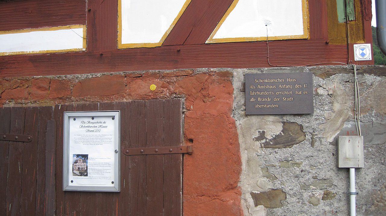 "Schenkbarsches Haus" Biedenkopf, details